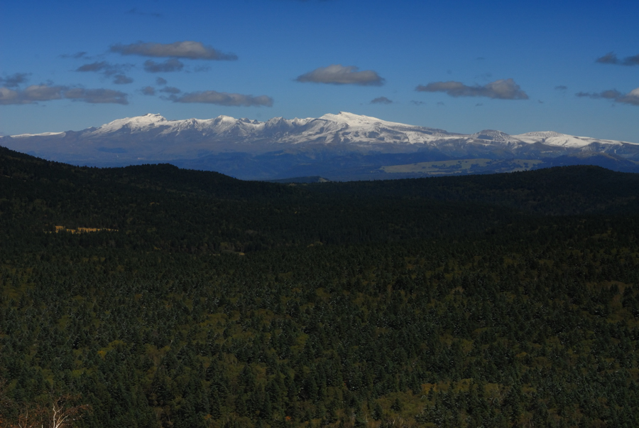 Changbai Mountains from Wangtian'e